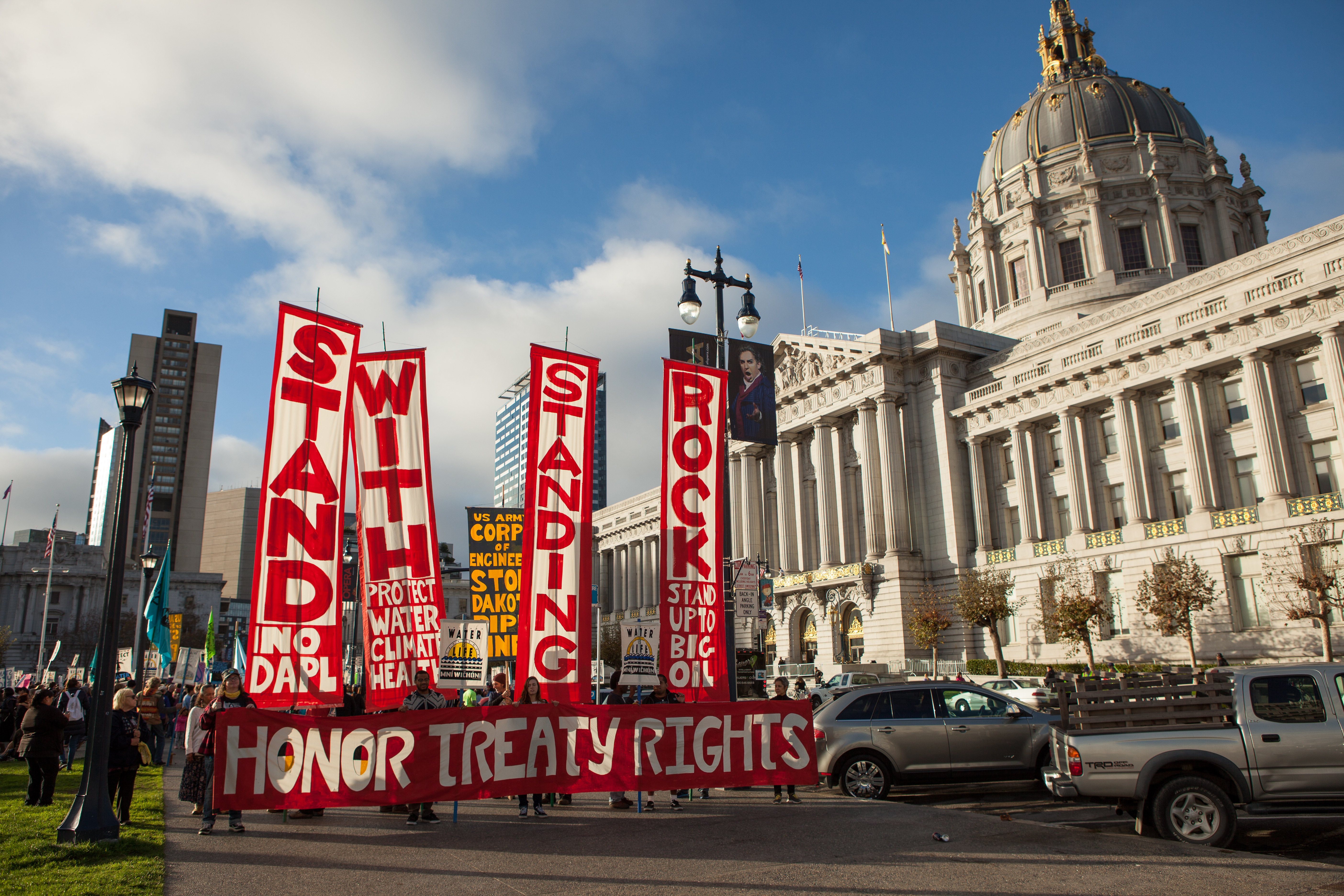 People protesting the Dakota Access Pipeline stand with signs and banners across from San Francisco City Hall.